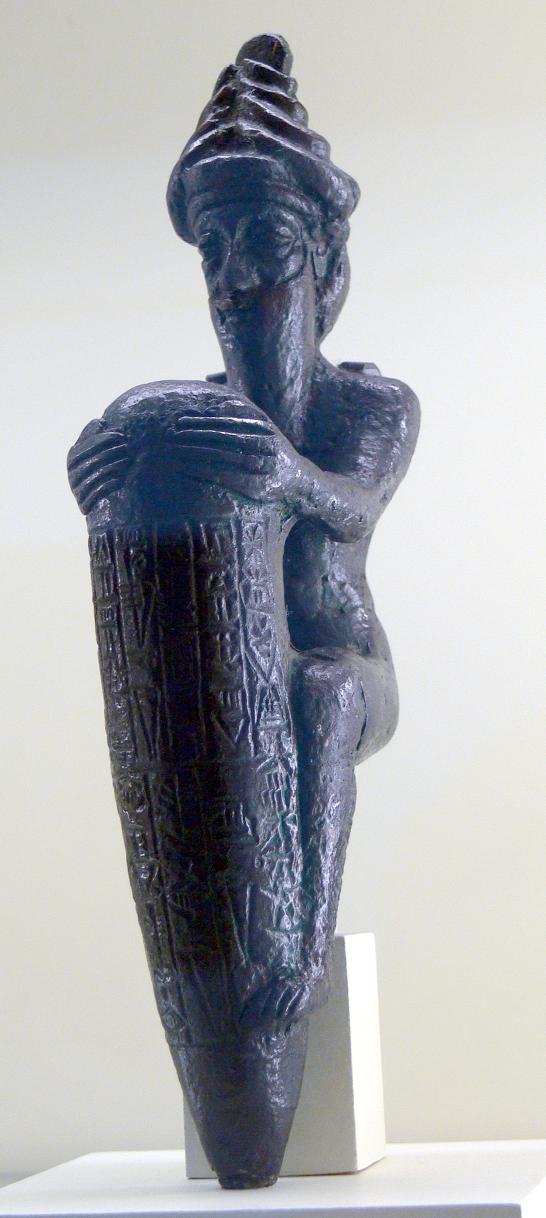 Museum of Ancient Near East ( Berlin ). Foundation of kneeling god holding a nail ( 22nd century BC ), with dedication inscription by Gudea, ruler of Lagash.